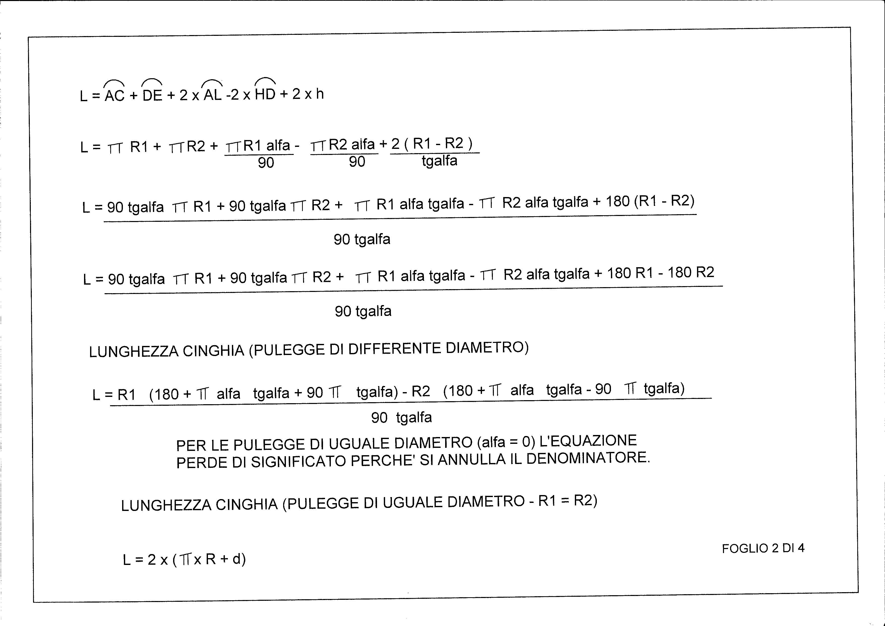 Calcolo sviluppo cinghia 2